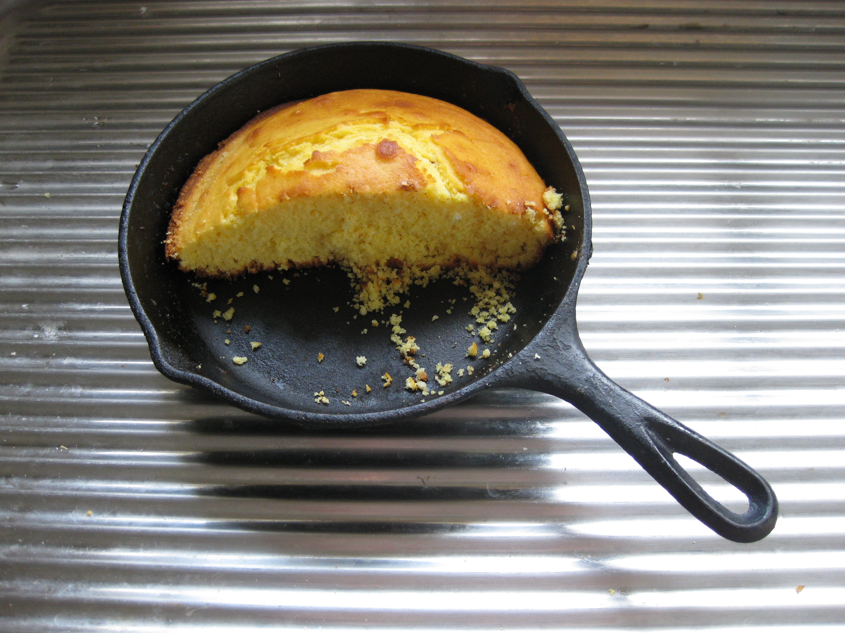 Half a loaf of cornbread in cast iron fry pan.